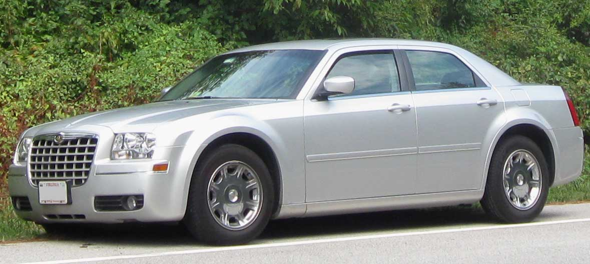 2005-2008 Chrysler 300 photographed in College Park, Maryland, USA.